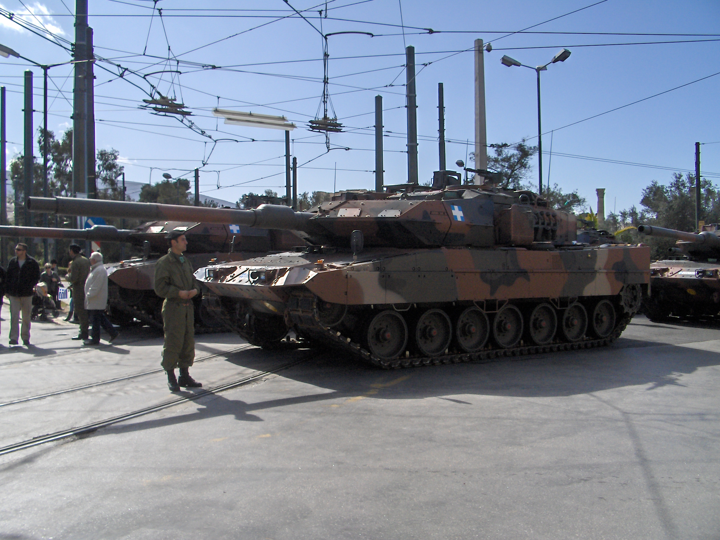 Hellenic Army armoured vehicle at the parade in Athens.